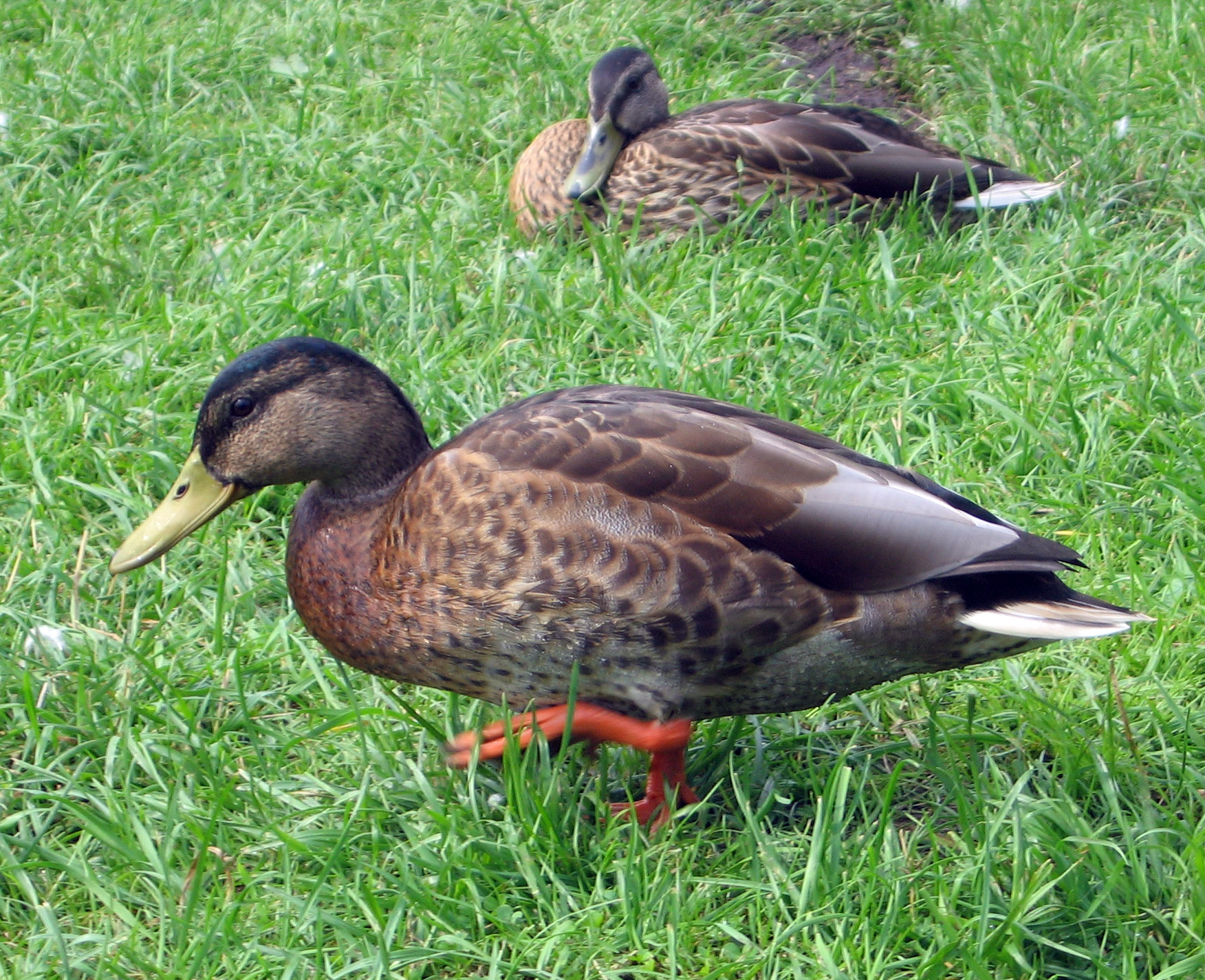 Anas platyrhynchos eclipse drake in front, female behind; in Druskininkai, Lithuania